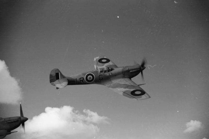 Aircraft of the Royal Air Force, 1939-1945- Supermarine Spitfire. Spitfire LF Mark VB, AB502 'IR-G', the personal aircraft of Wing Commander I R "Widge" Gleed, No. 244 Wing Leader based at Bu Grara, Tunisia, in flight off Djerba Island. The aircraft is fitted with an Aboukir air filter and has 'clipped' wings in order to assist low-level performance